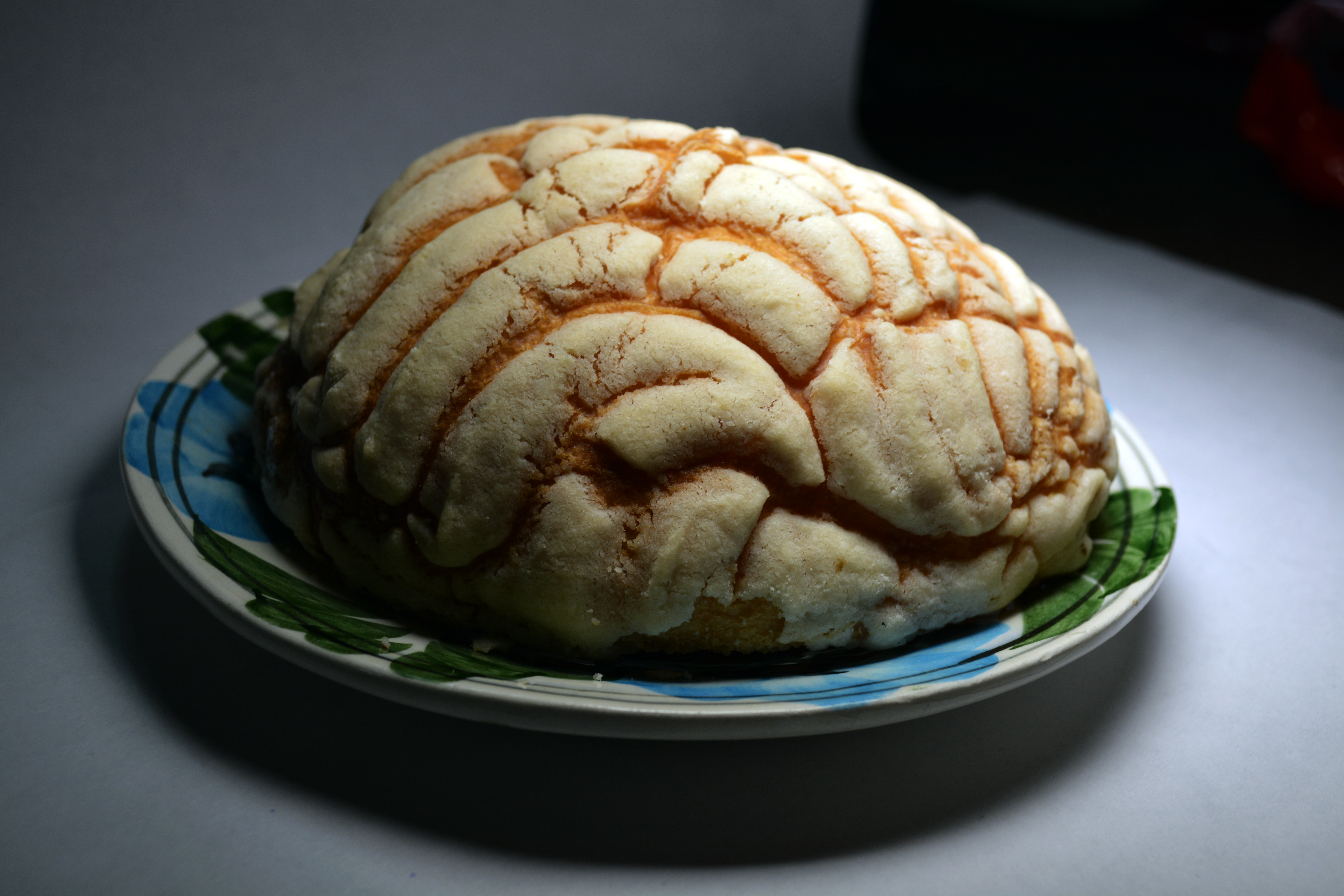 "Concha" (literally a shell), Mexican sweet bread bought in Mexico City.